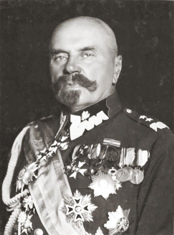 Daniel Konarzewski (1871-1935), a Polish Major General